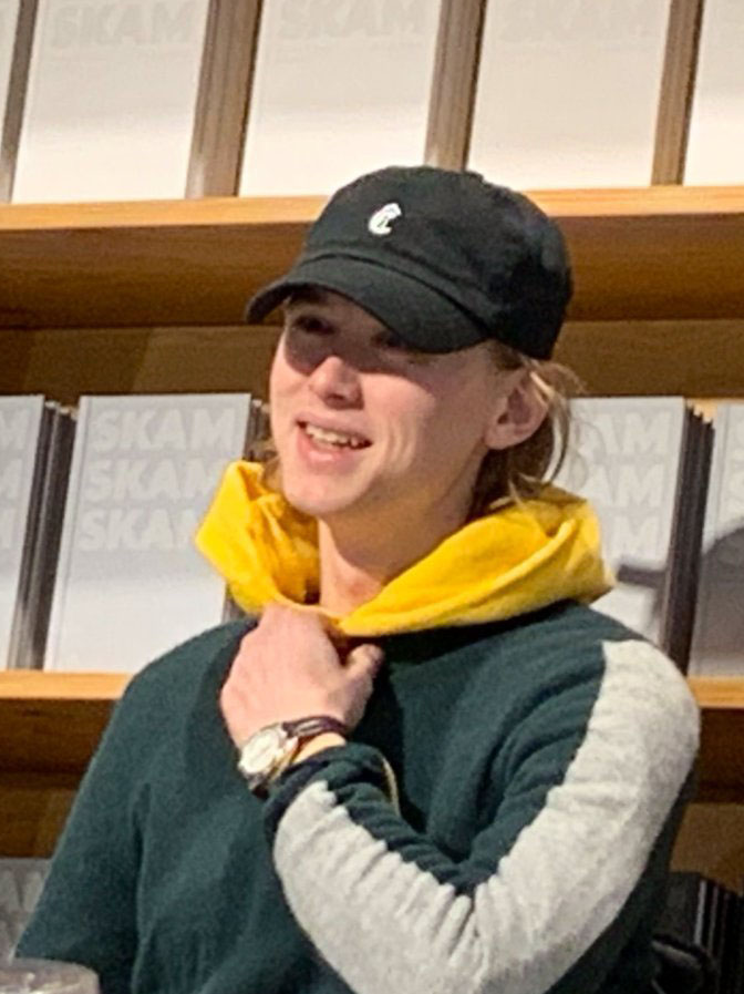 Henrik Holm at the Skam book signing event in Oslo, Norway (2018)